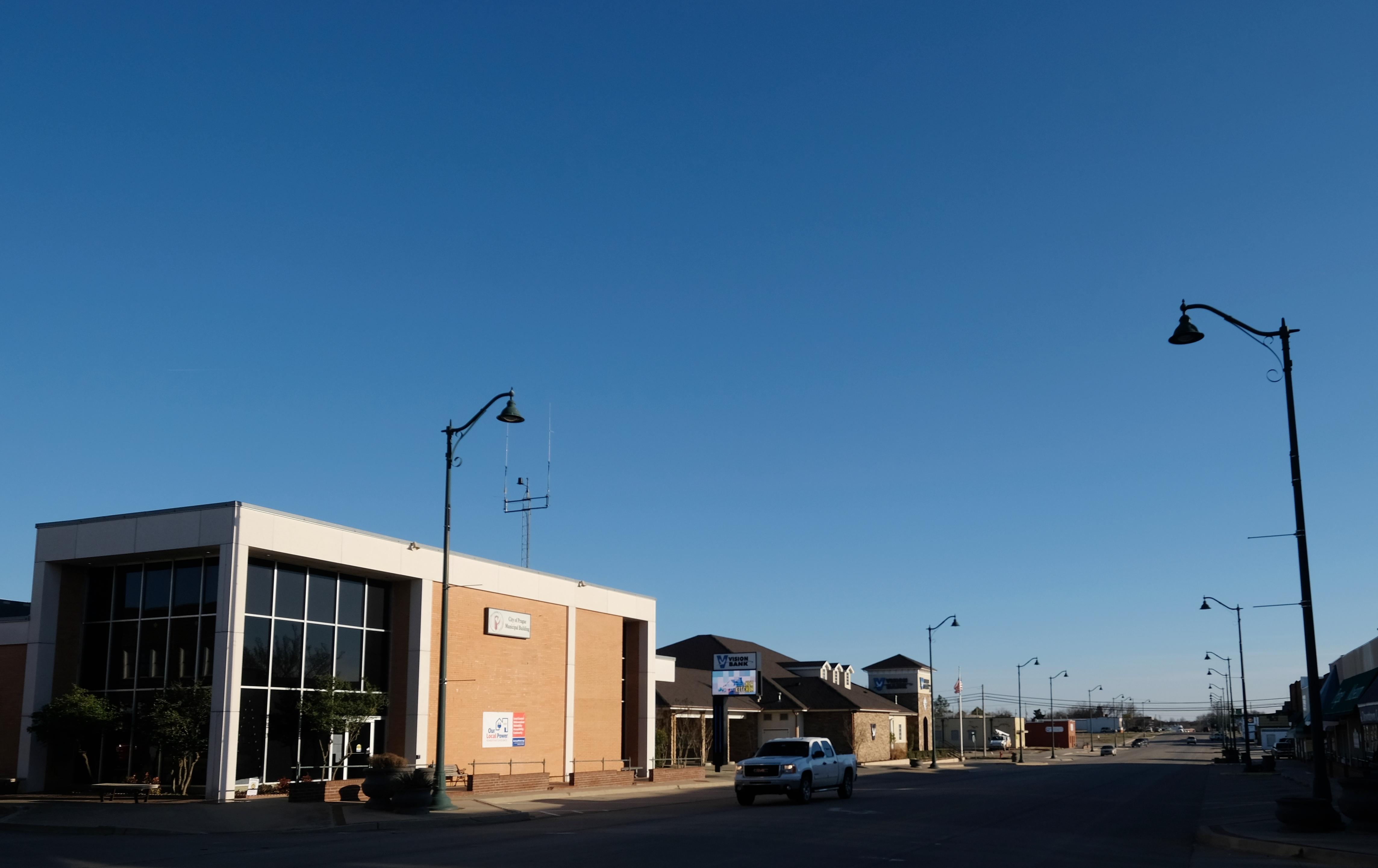 City of Prague Municipal Building, Prague (Population 2,386 in 2010), Oklahoma, USA.JPG